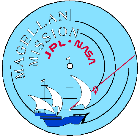 Magellan Mission Patch